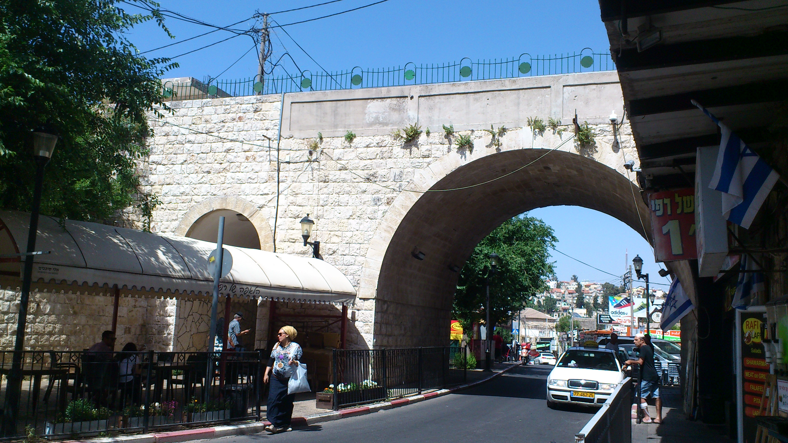 Old city, Safed